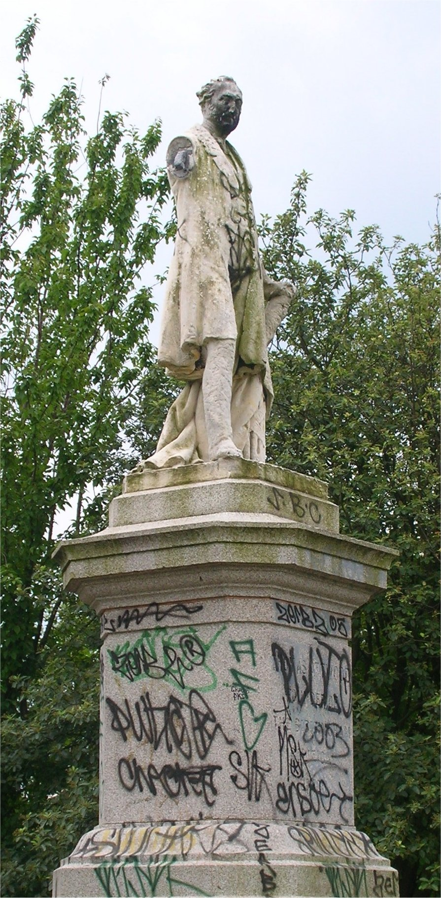 A grade II listed statue of Thomas Attwood in Highgate Park, Sparkbrook, Birmingham, England. Photographed by me 28 June 2006. Oosoom